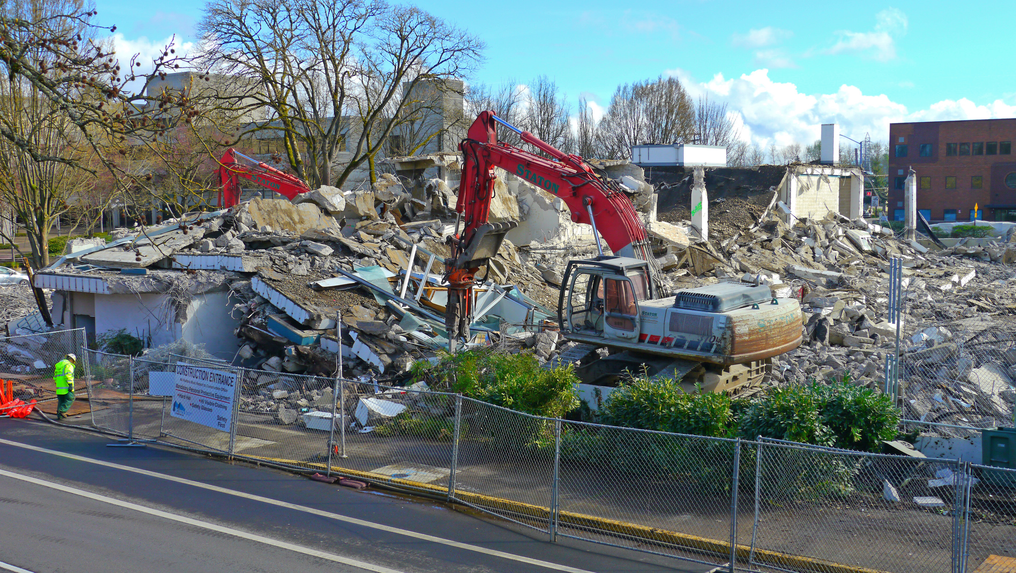 Demolition work underway on Eugene City Hall, in Oregon, on March 12, 2015.